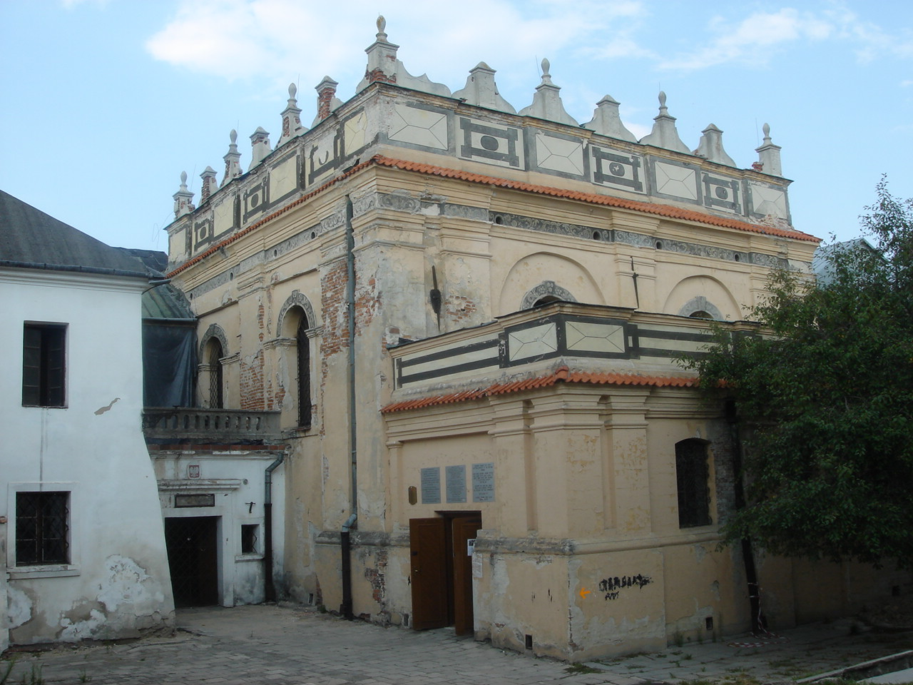 Synagogue in Zamość (before repair)